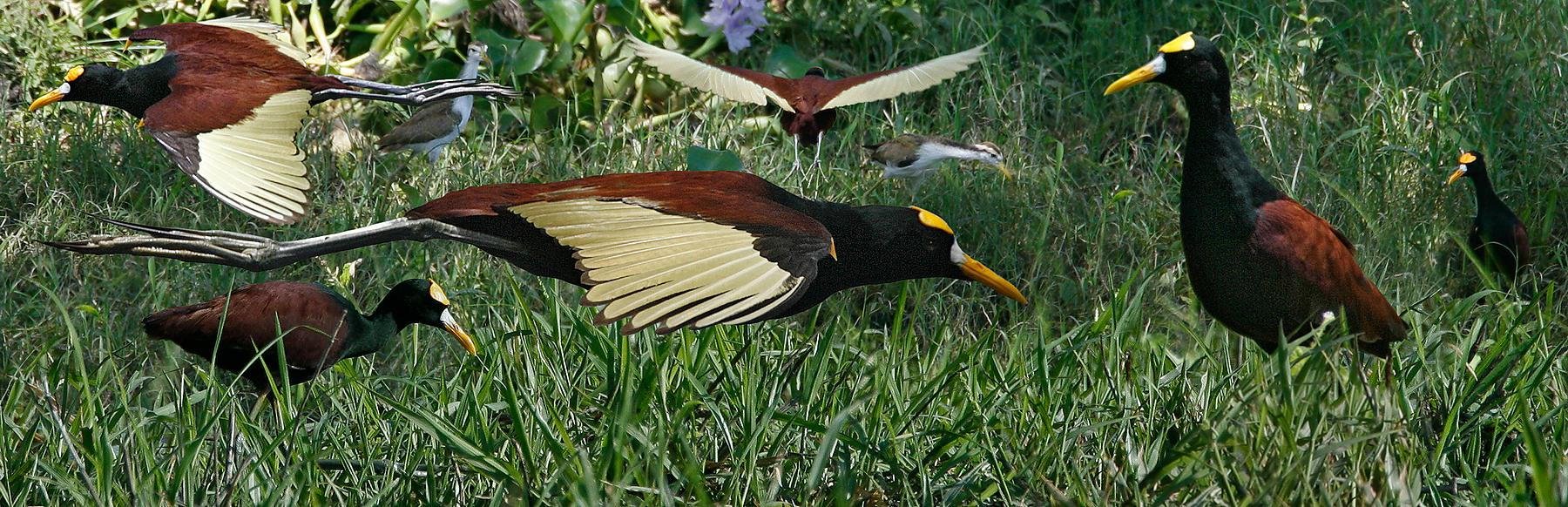 Jacana From The Crossley ID Guide Eastern Birds